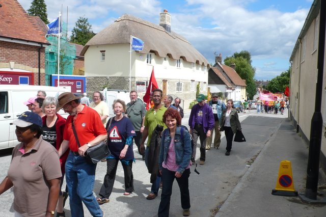 Tolpuddle Festival 2008 The annual festival march returns through the village to the TUC Memorial Cottages passing recently erected new "old" thatched cottages.